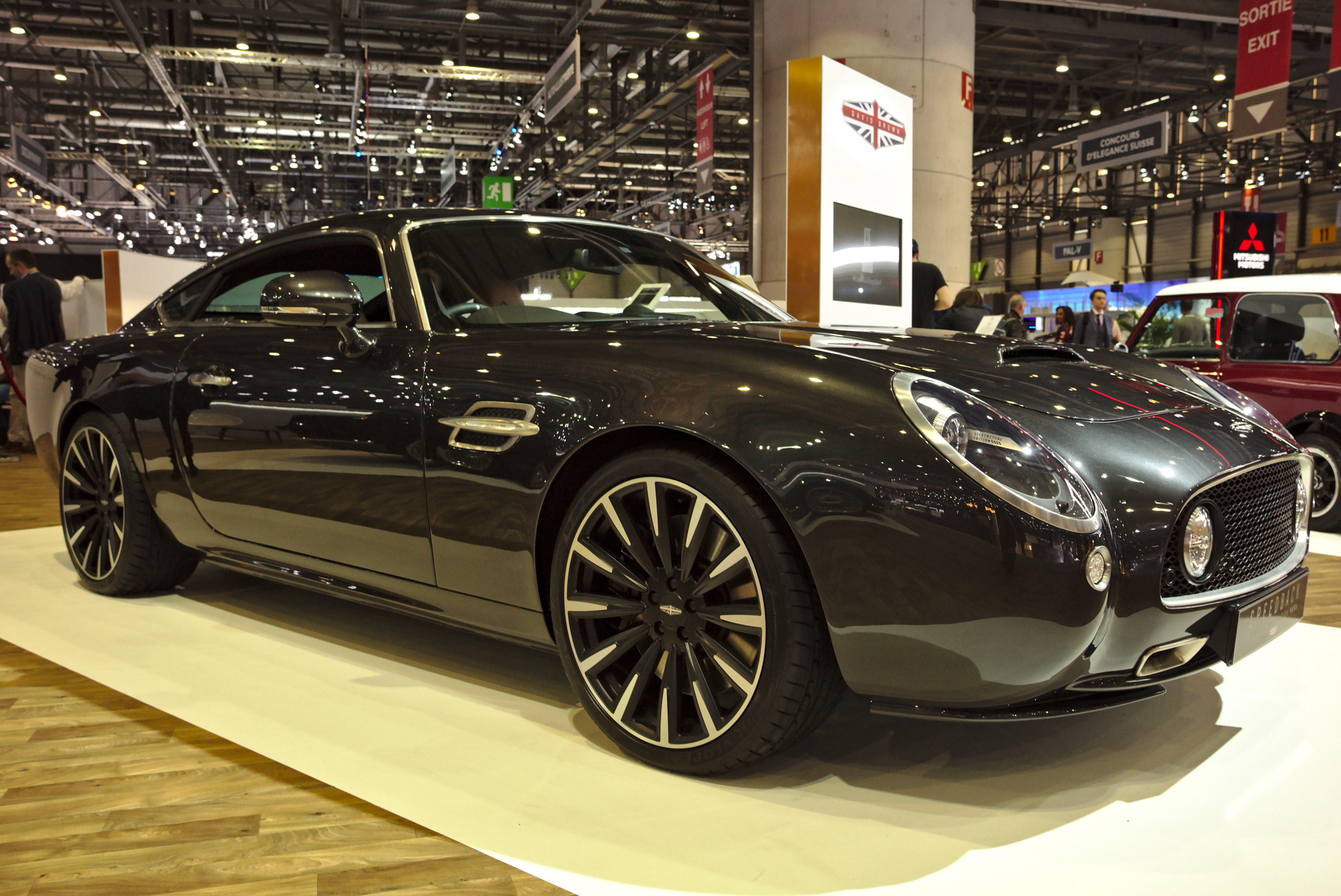 David Brown Speedback Silverstone Edition at Geneva Motorshow 2018